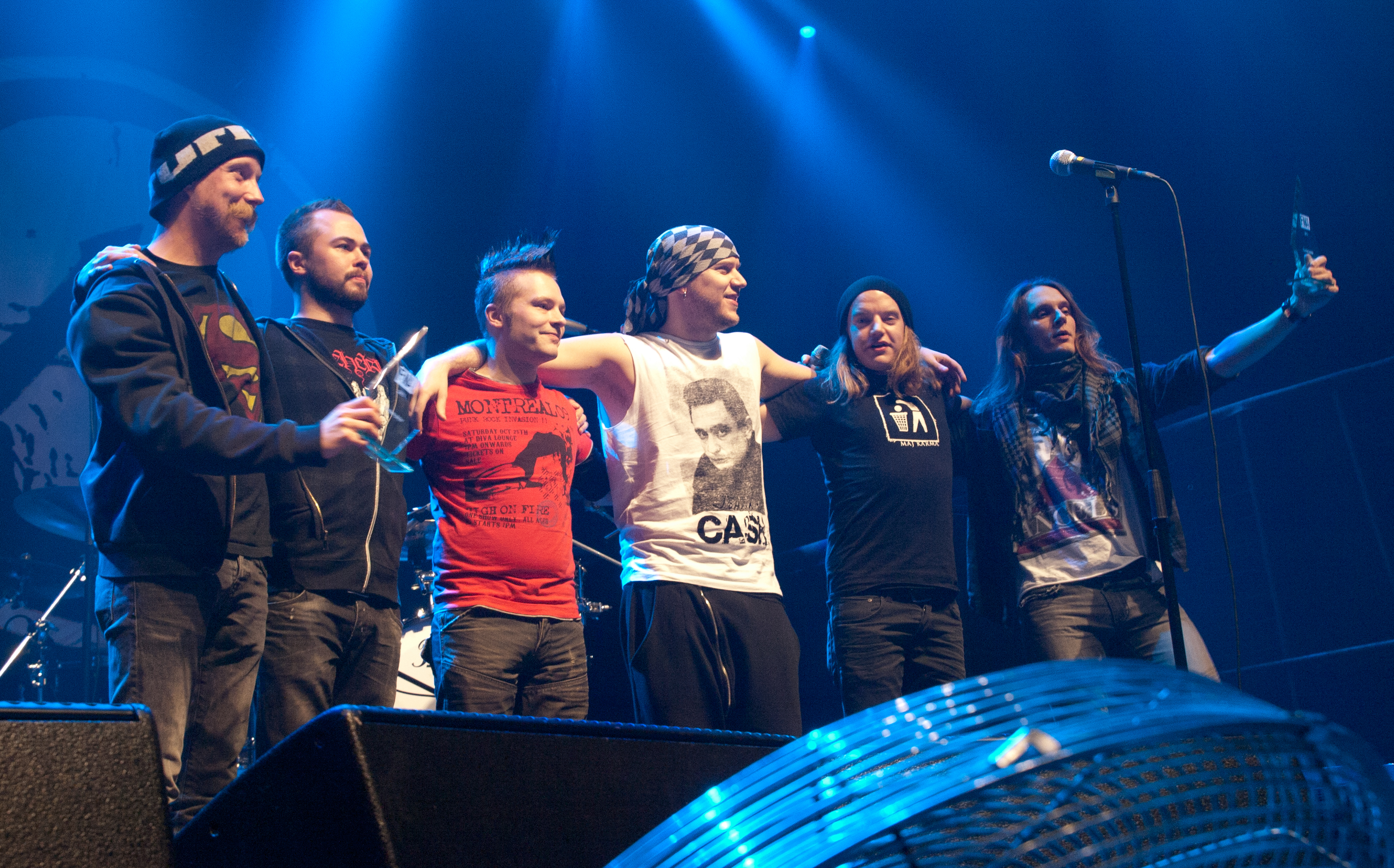 Finnish Metal Awards 2012. Award for "Best band 2011" for the band Turisas